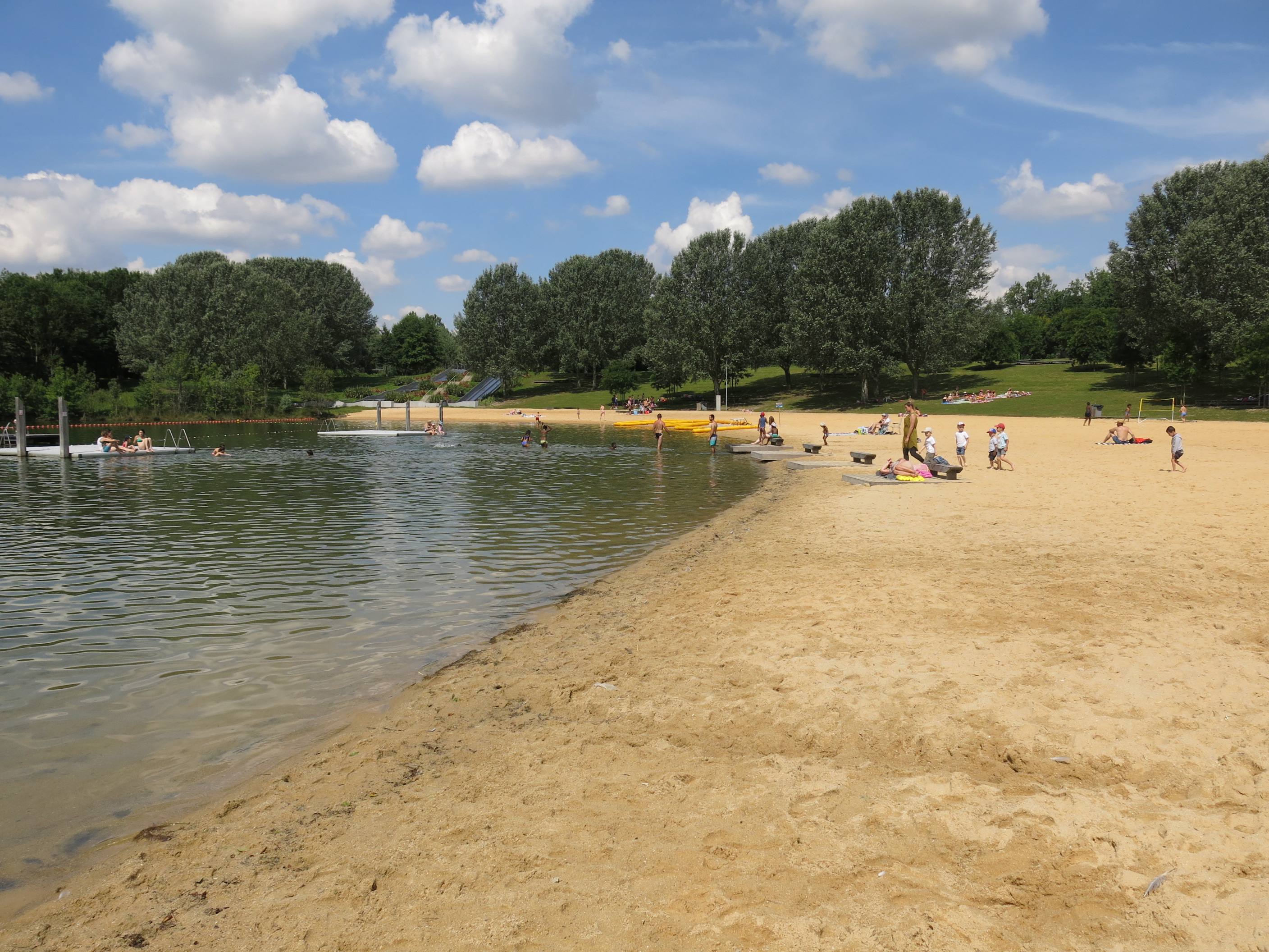 Beach of the leisure center of Torcy (Seine-et-Marne, France).